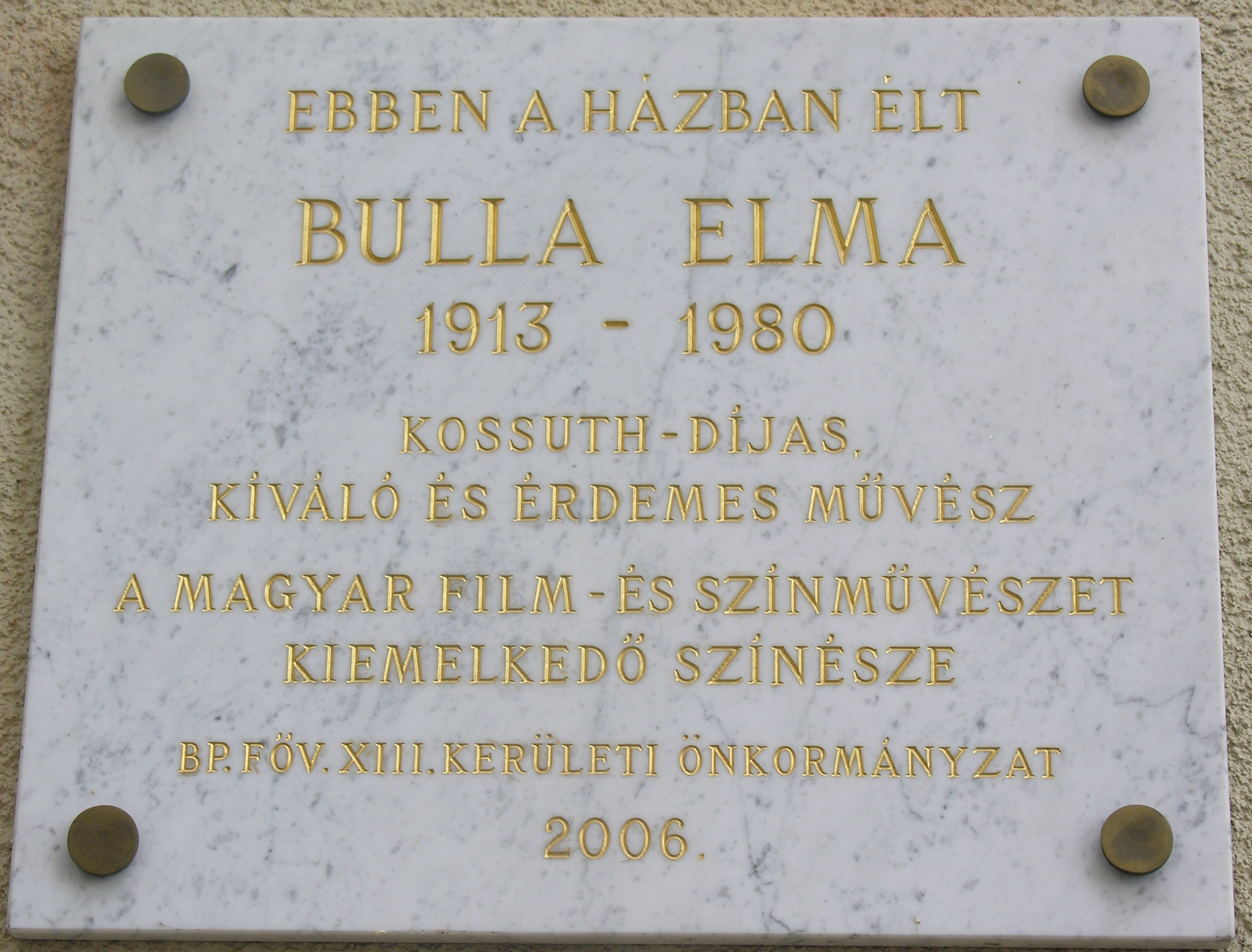 Commemorative plaque of Elma Bulla in Budapest District XIII, Radnóti Miklós Street No 40